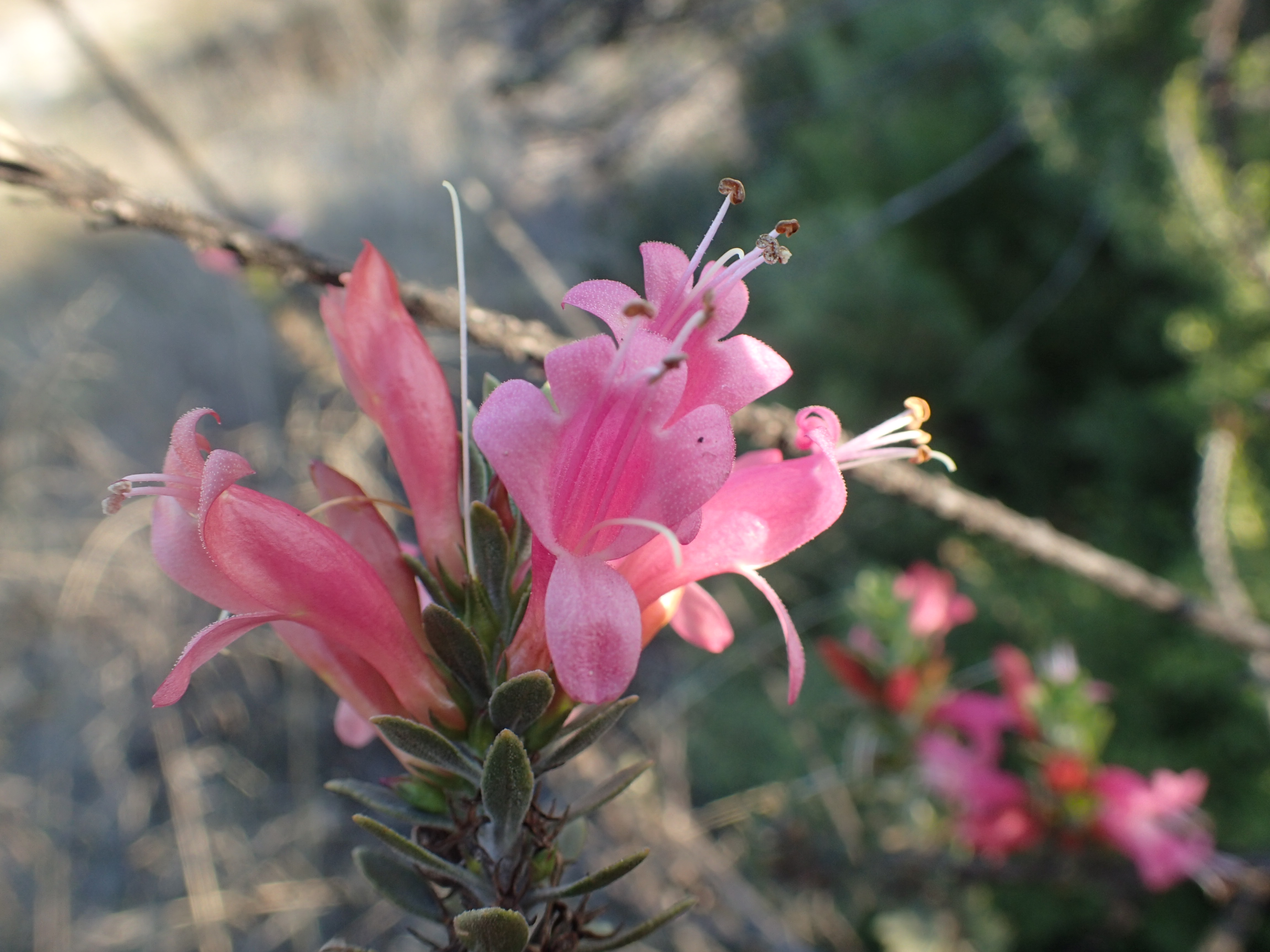 Eremophila calorhabdos growing near the abandoned community of Rad Lake, south of Salmon Gums in Western Australia